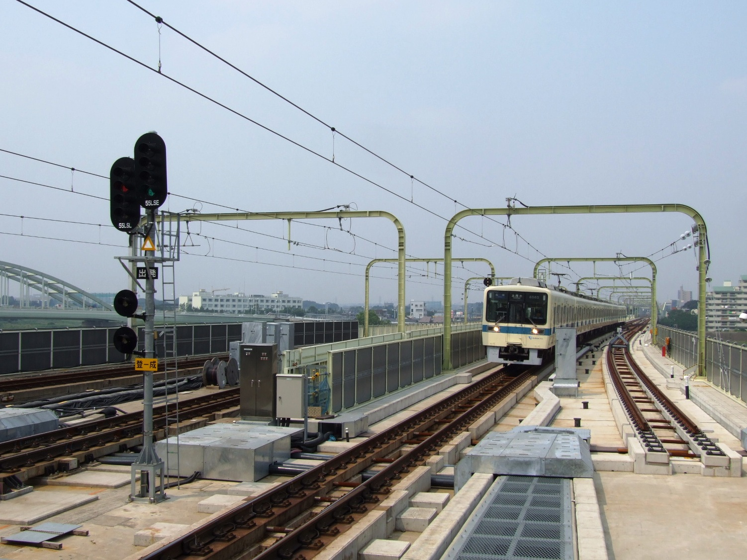 Tama River Bridge,OER-ODAWARA-LINE,Odakyu Electric Railway,Japan